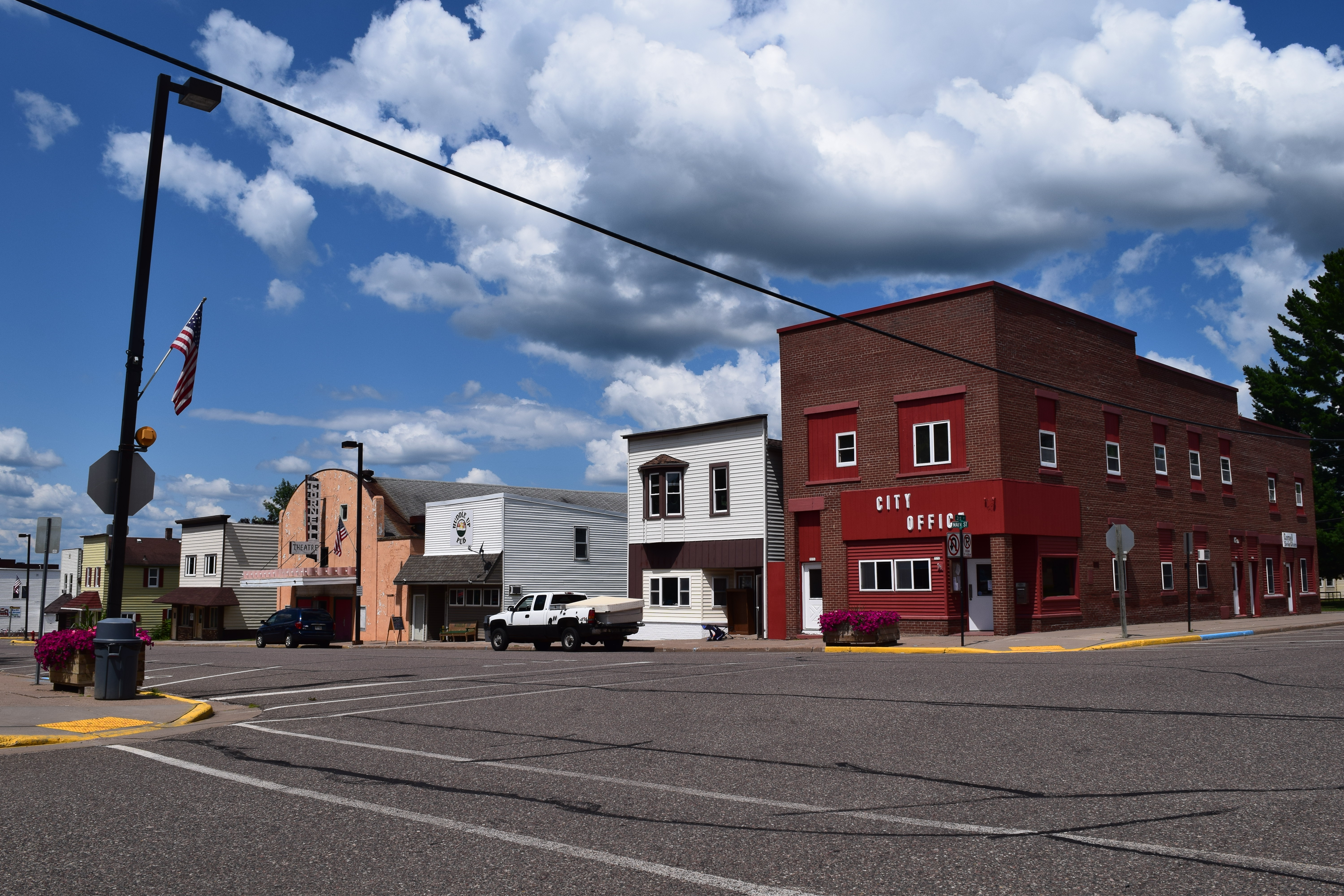 Buildings in downtown Cornell, including the city offices and theater.